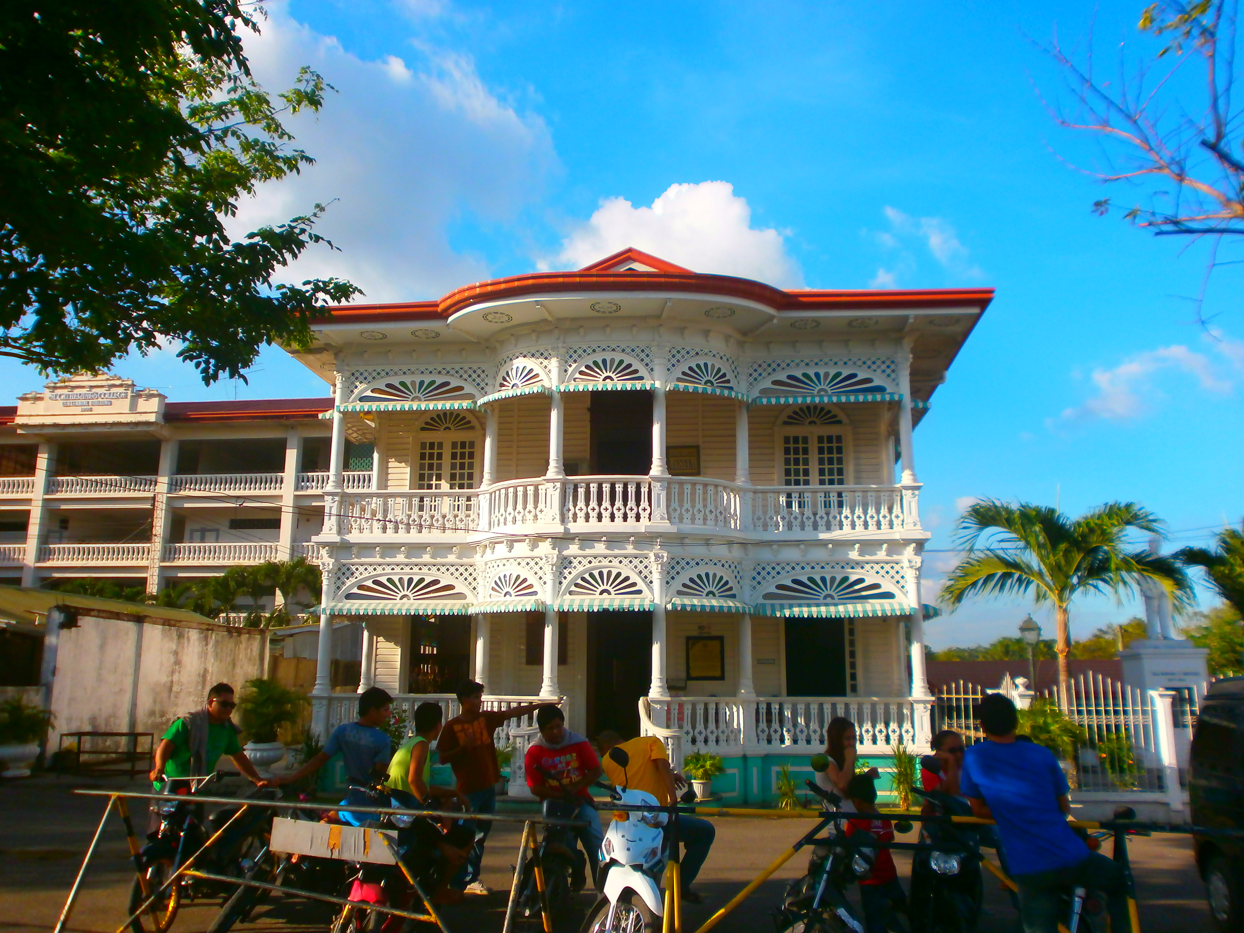 Carcar City Museum